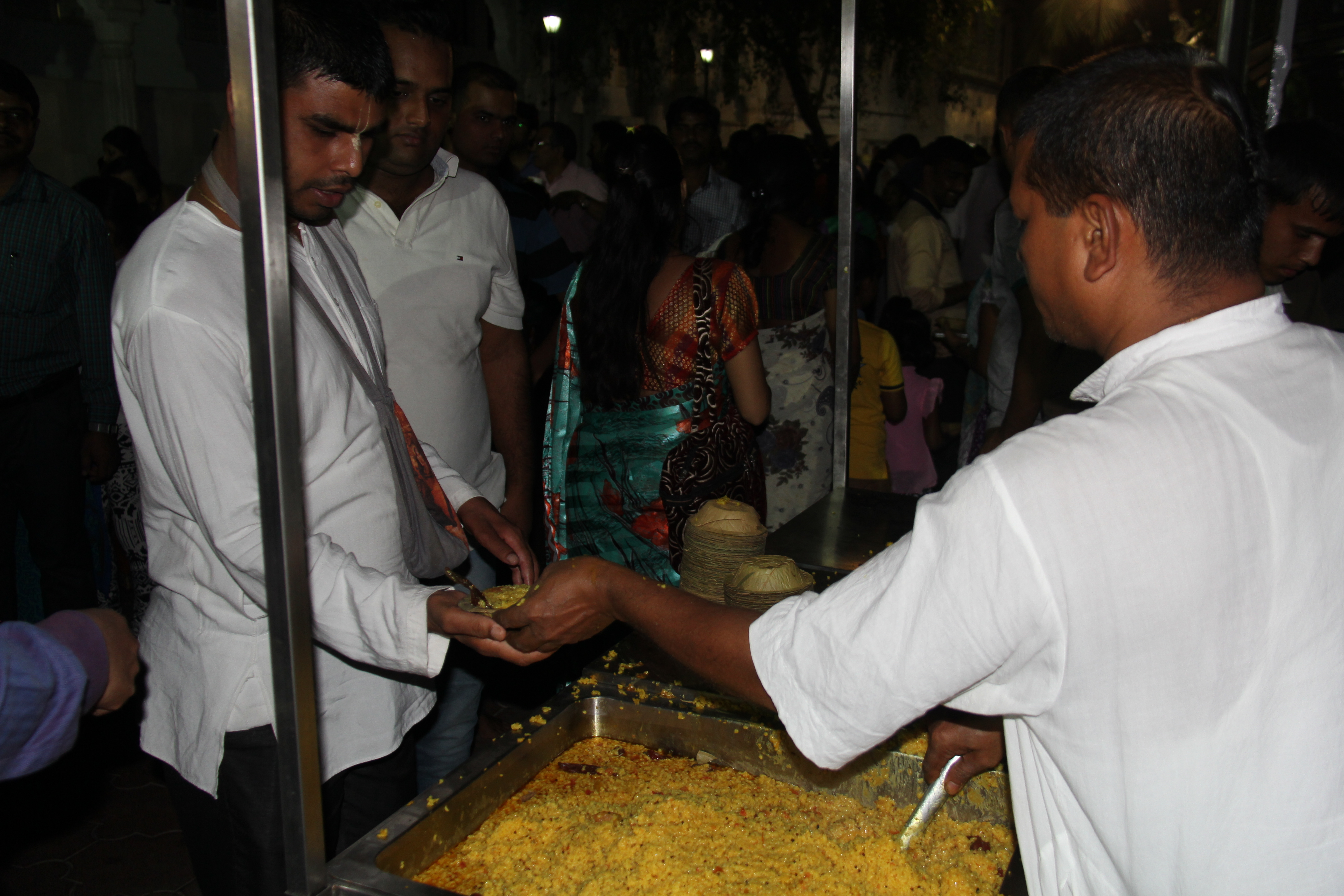 Daily Free Prasadam Distribution at ISKCON Juhu